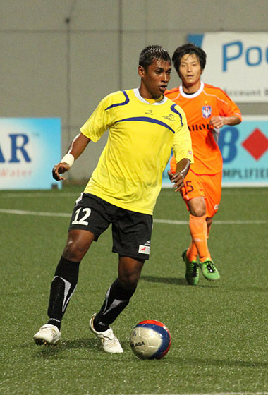 K. Sathiaraj in action for Woodlands Wellington in a S.League match against Albirex Niigata (S) at Jalan Besar Stadium on 12th February 2012.